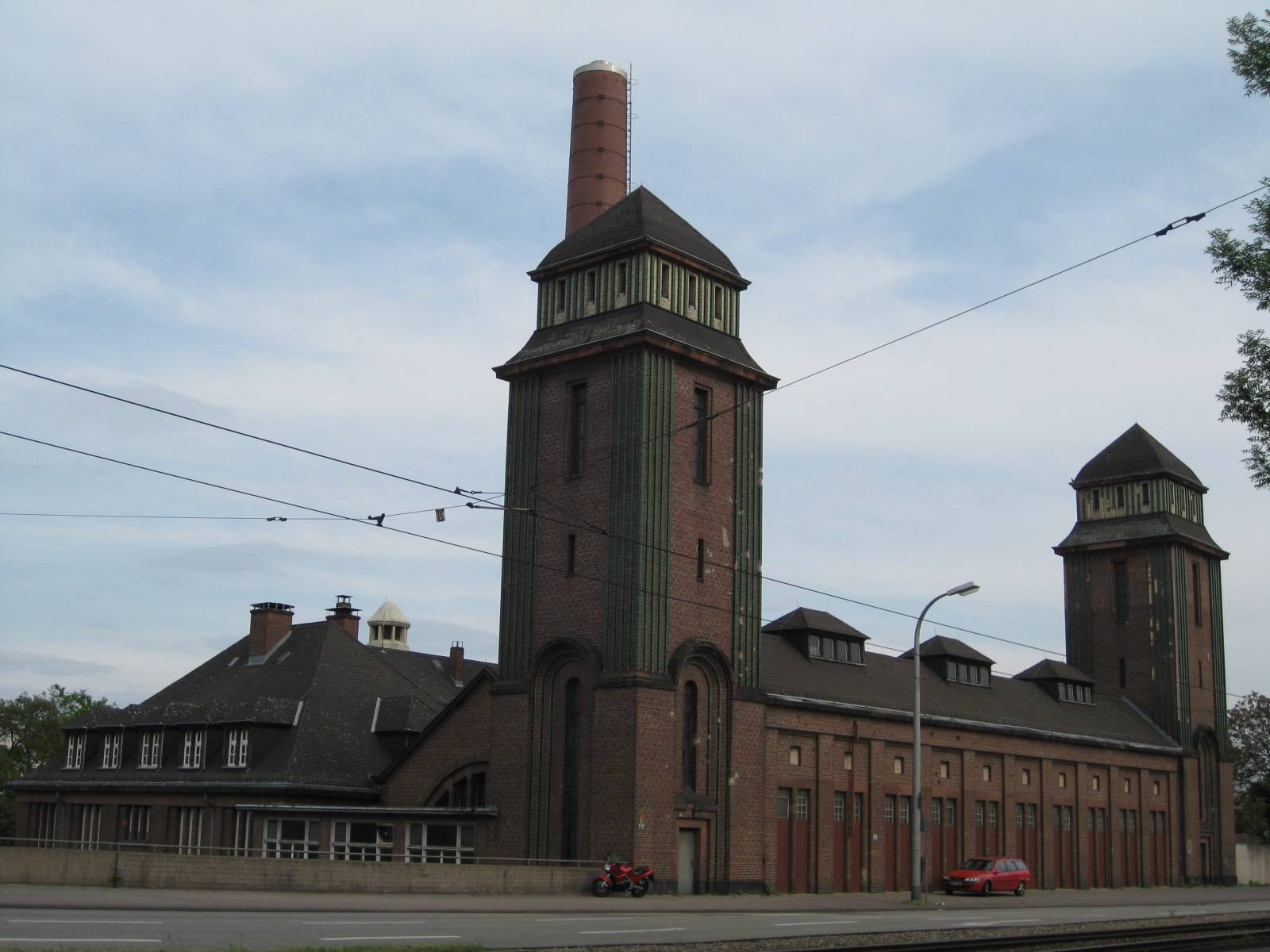 Old laundry, university hospital Mannheim/Germany